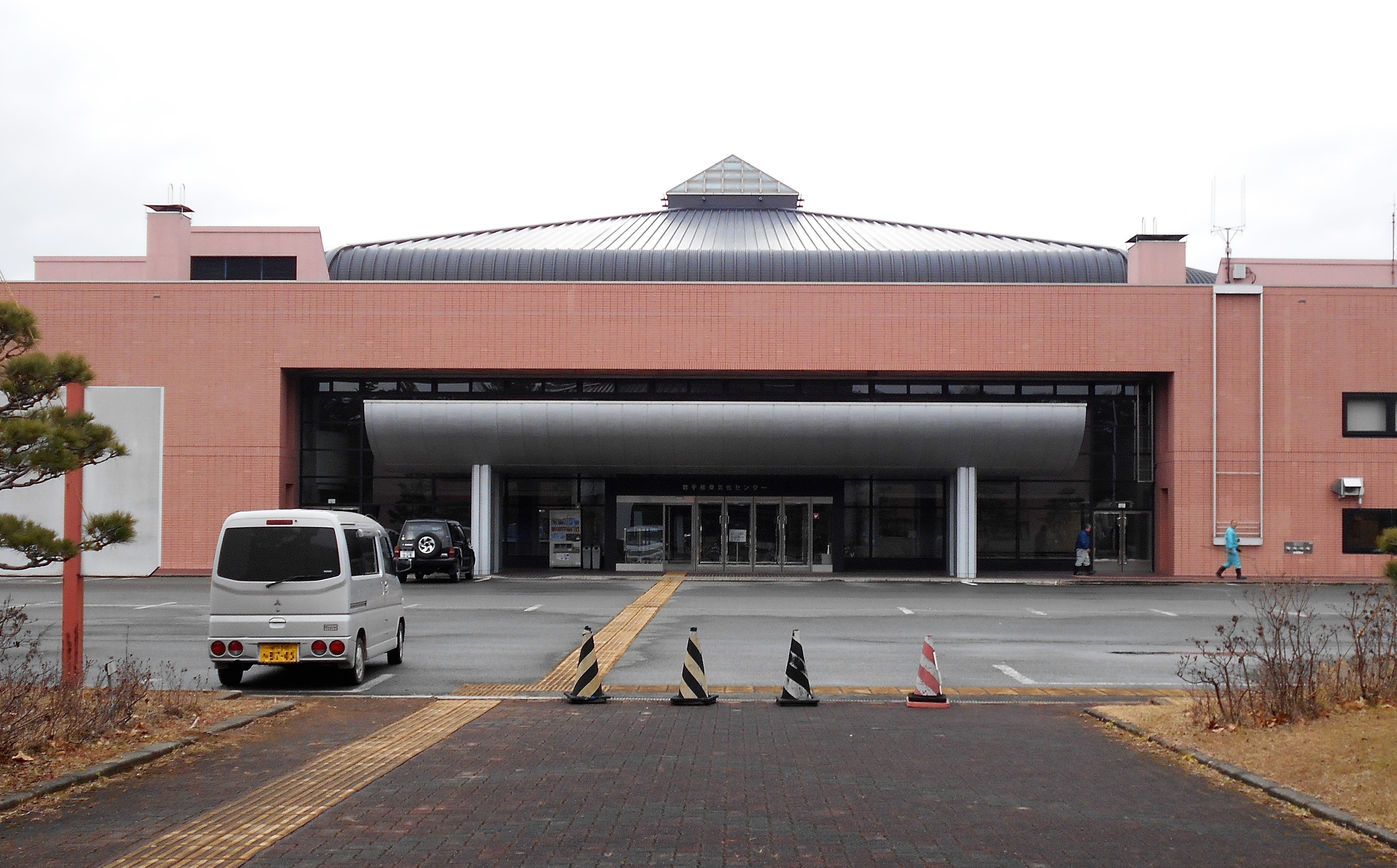 Iwate Industry Culture & Convention Center（Apio）, Arena